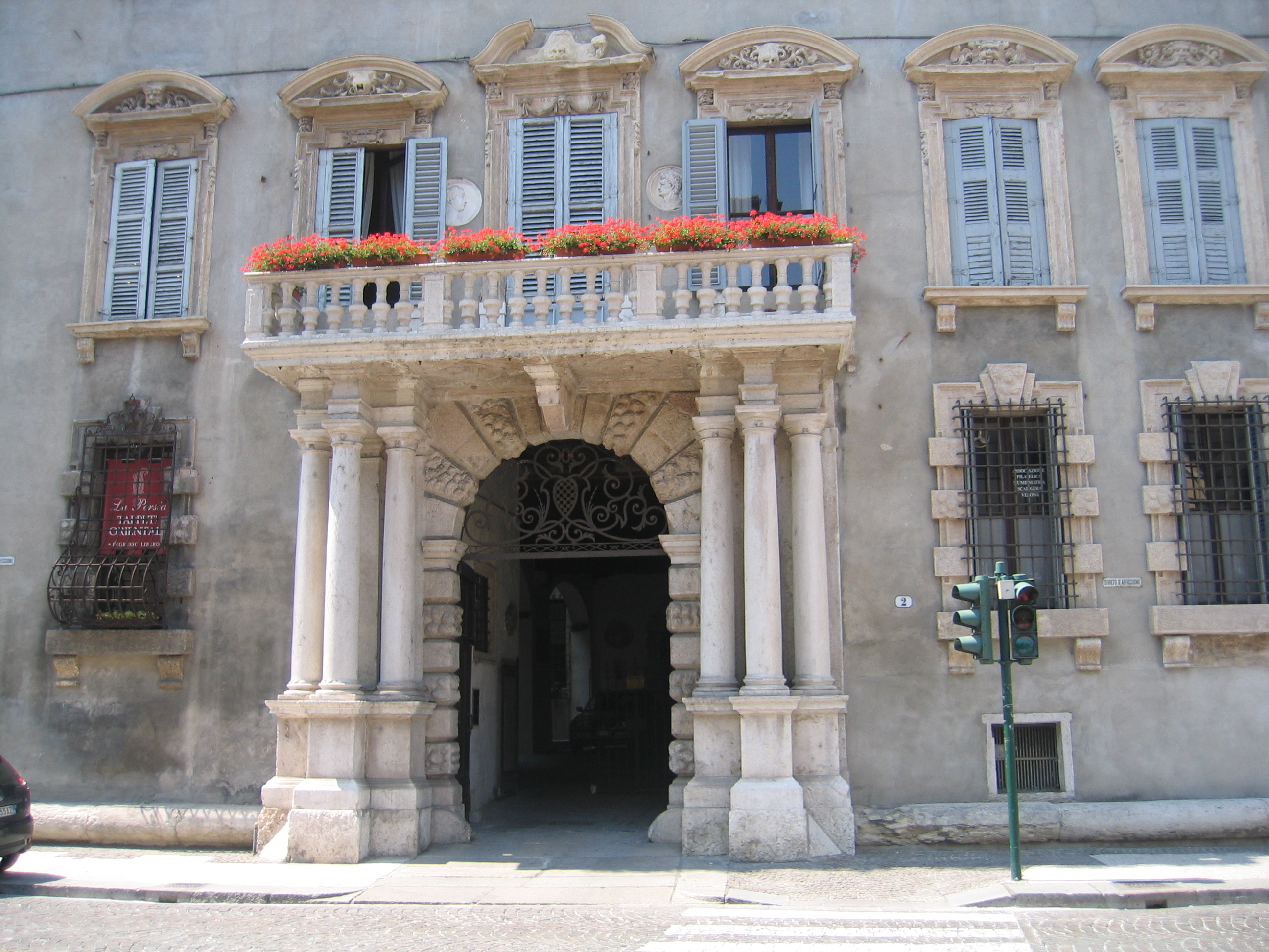 Palazzo Carlotti (palace) in Verona